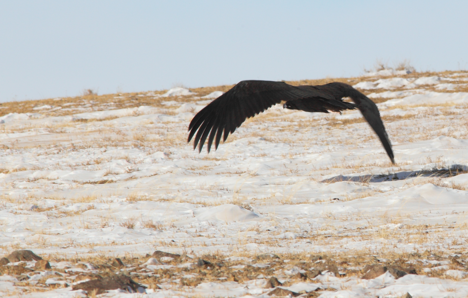 On our way from Baga Gazaryn Chuluu to Terelj National Park, Mongolia. Aegypius monachus along the road.